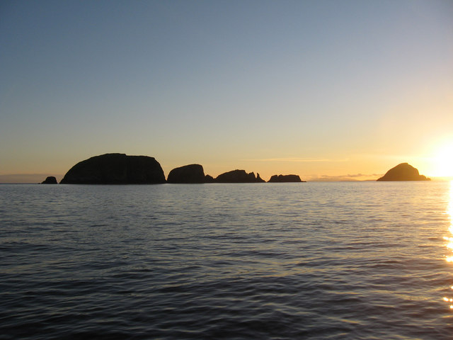 Galtachan After a trip from Lochmaddy to the Shiant Isles, we are heading towards Stornoway.